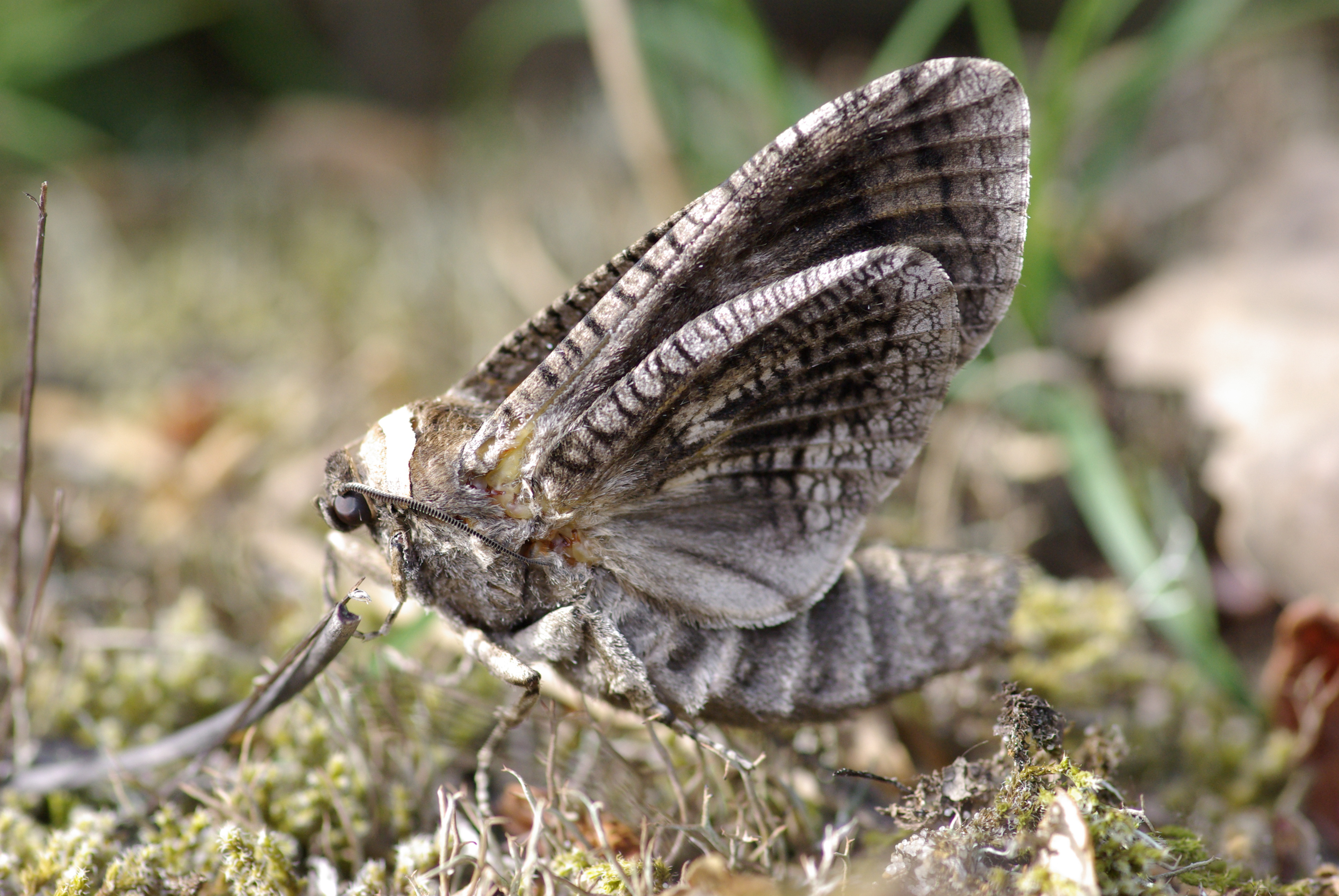 Cossus-cossus (Le gâte-bois) taken in Arès in Gironde (33) France